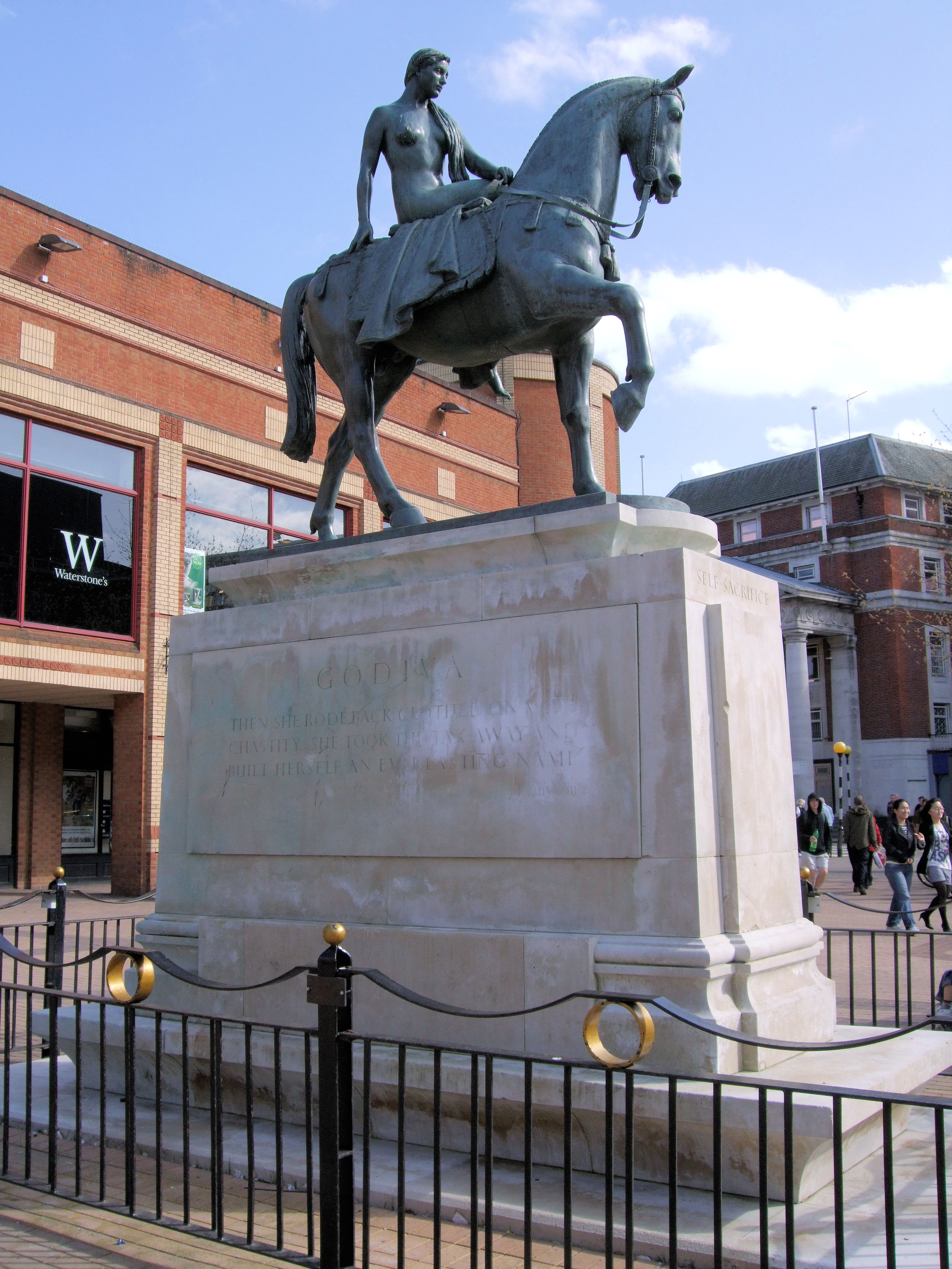 Lady Godiva (1040?1080), was an Anglo-Saxon noblewoman who, according to legend, rode naked through the streets of Coventry, in England, in order to gain a remission of the oppressive taxation imposed by her husband on his tenants.